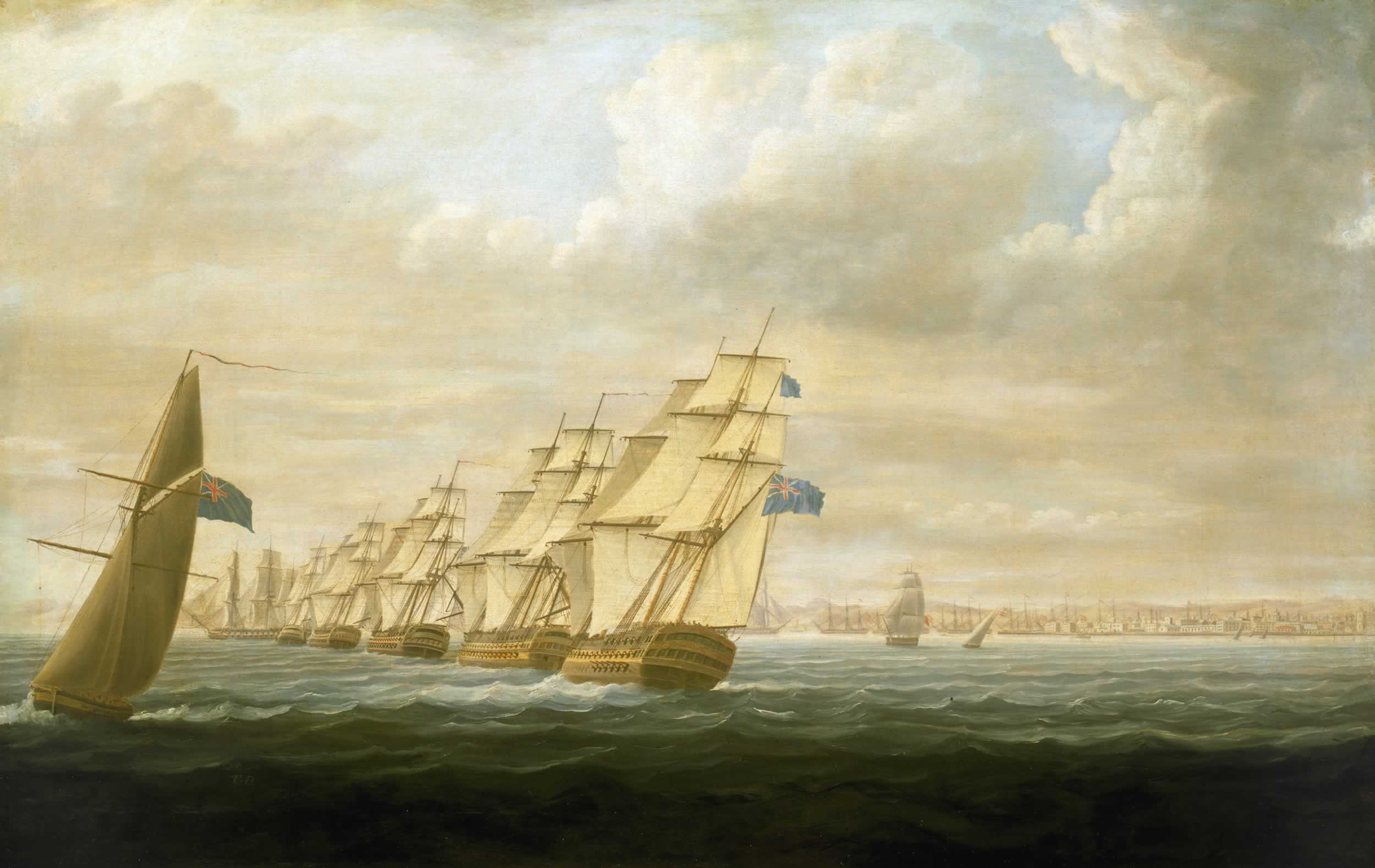 Nelson's Inshore Blockading Squadron at Cadiz, July 1797